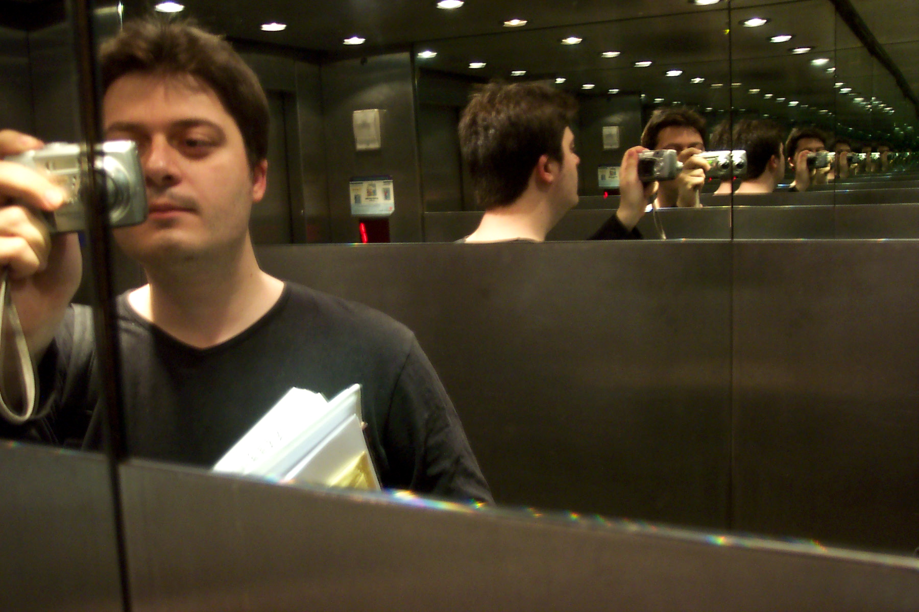 Spanish comic writer Manuel Bartual